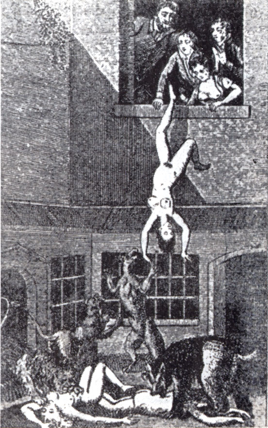 Illustration in the novel Justine, or The Misfortunes of Virtue: "The victims are thrown to the beasts to be devoured".